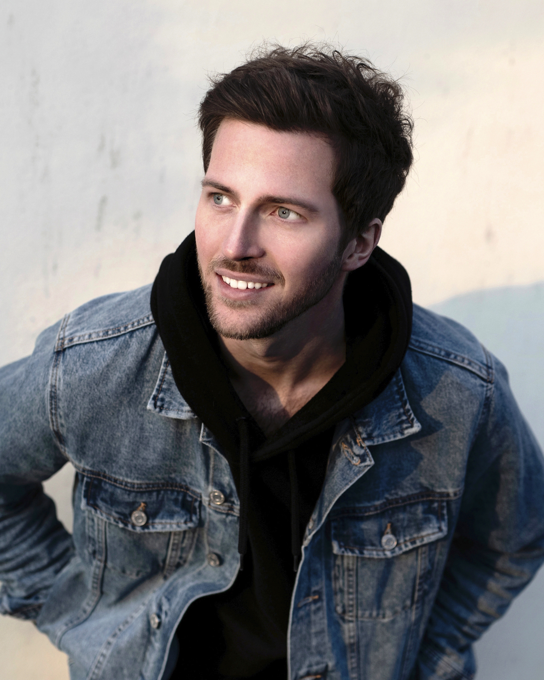 Artist photo of Wiese. Credit: Siv Dolmen